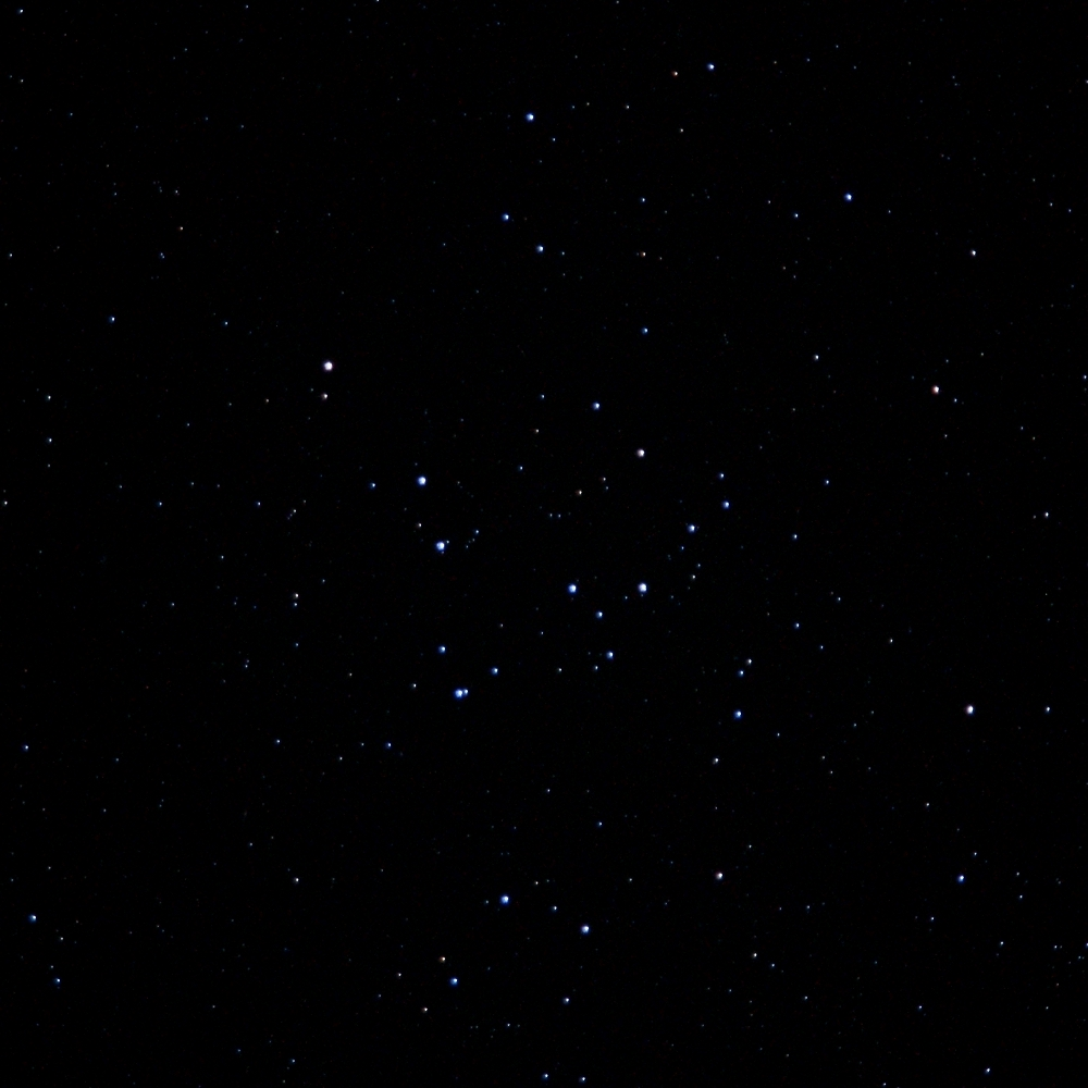 Open cluster Melotte 111, or Coma Star Cluster.